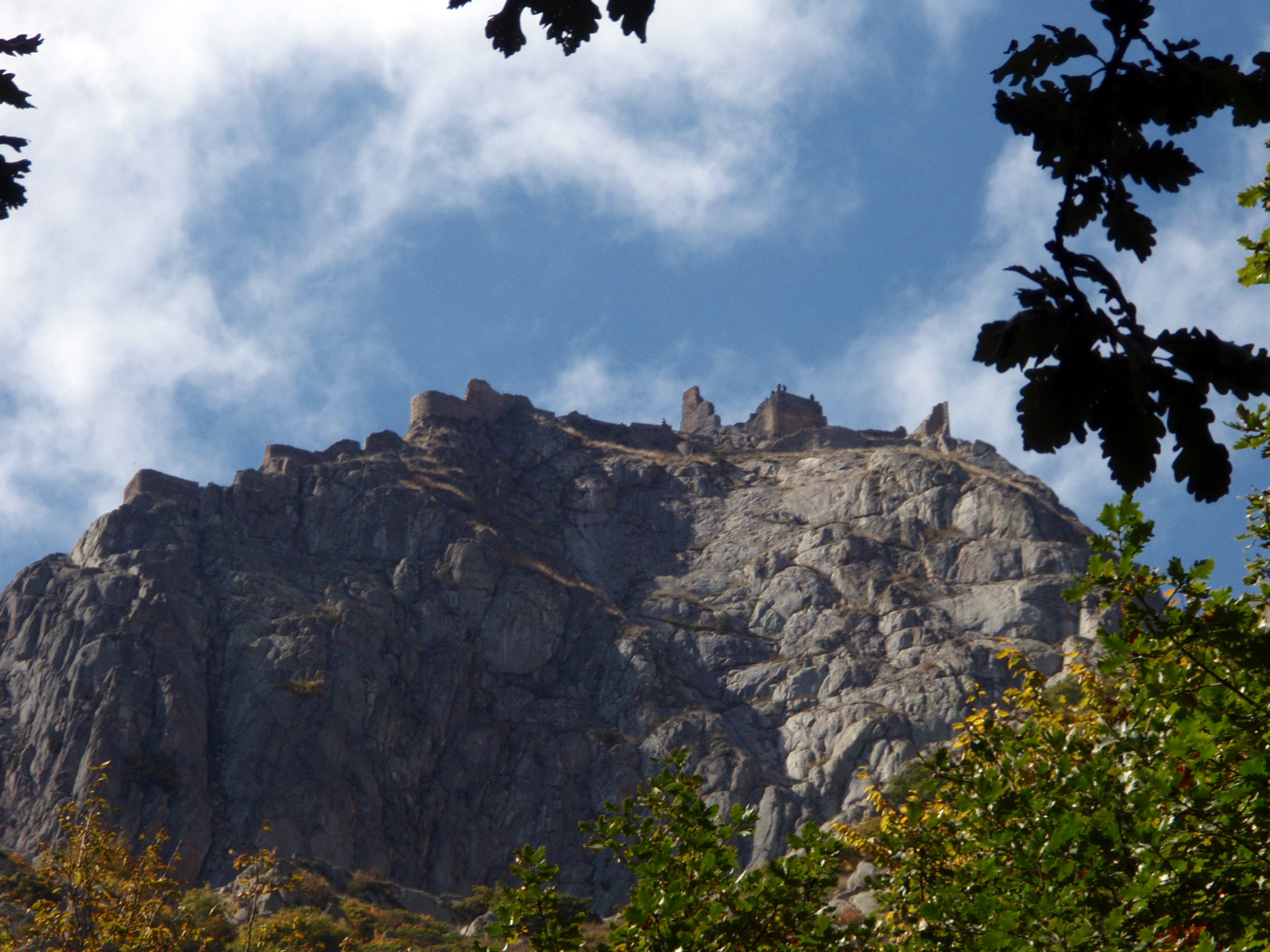 Babak Castle, AKA Bez or Jomhoor Castle